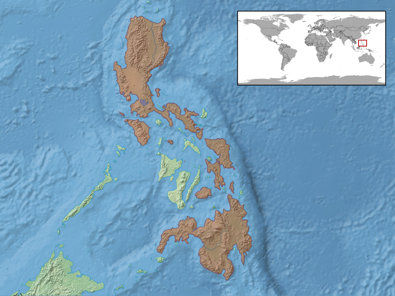 geographic distribution of Sphenomorphus cumingi (IUCN) syn Otosaurus cumingi (RDB)